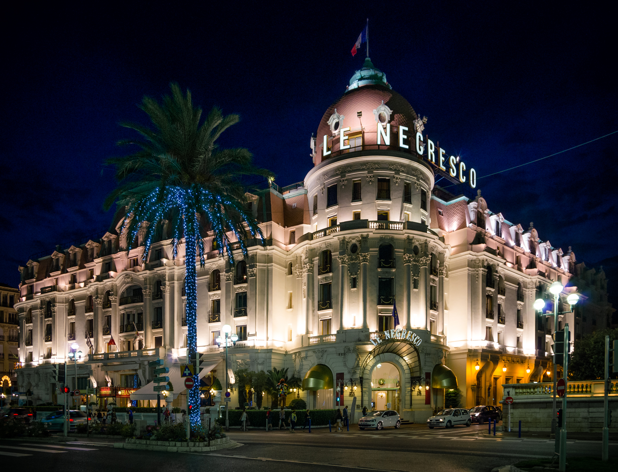 Famous hotel in Nice.